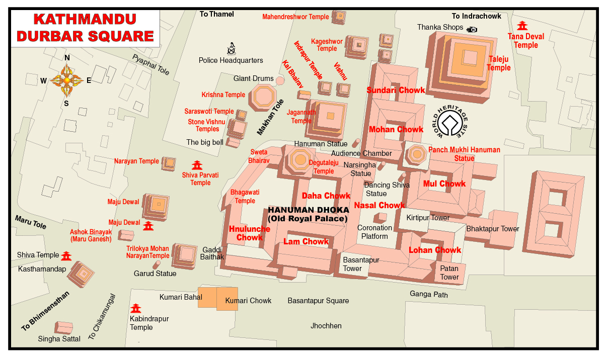 Map of Kathmandu Durbar Square